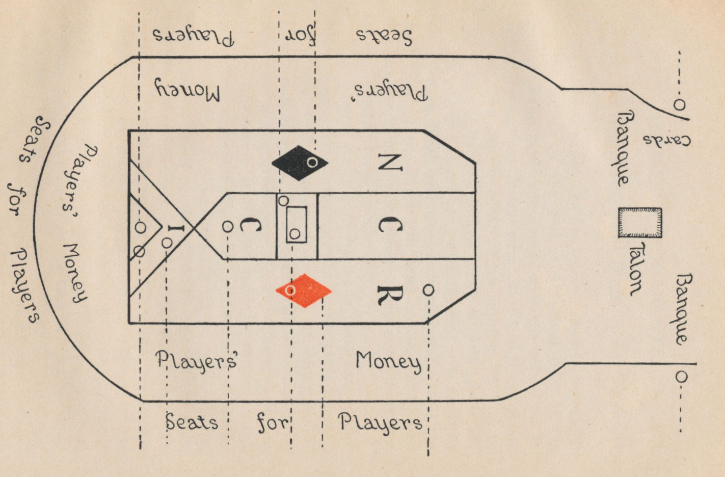 Trente et Quarante table markings.